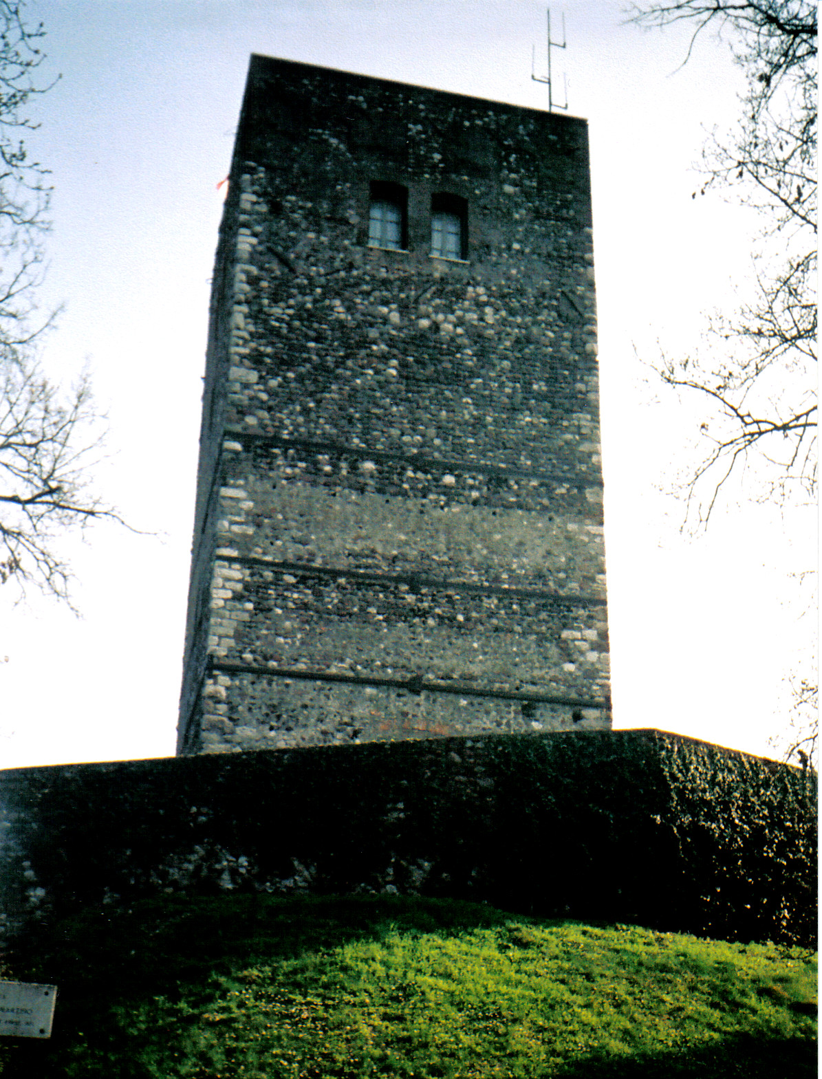 Spia d'Italia (Spy of Italy), a tower in Solferino, Italy, birthplace of the Red Cross Source: picture taken by User:UW in April 2005 License